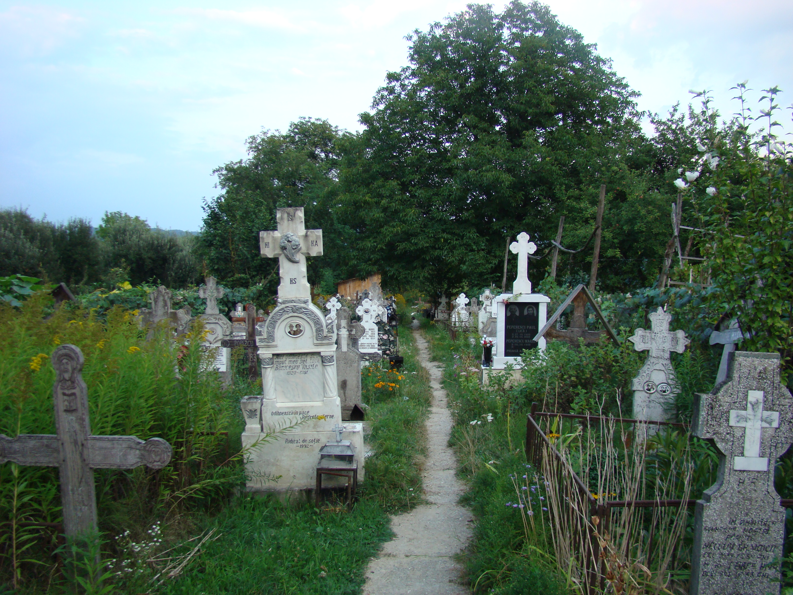 Wooden church in Vărzăroaia, Argeș county, Romania